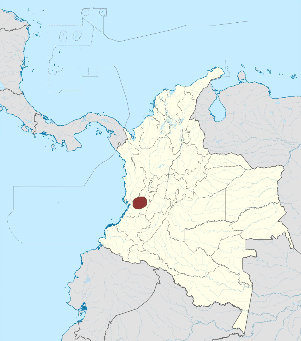 Historical territory of calima culture